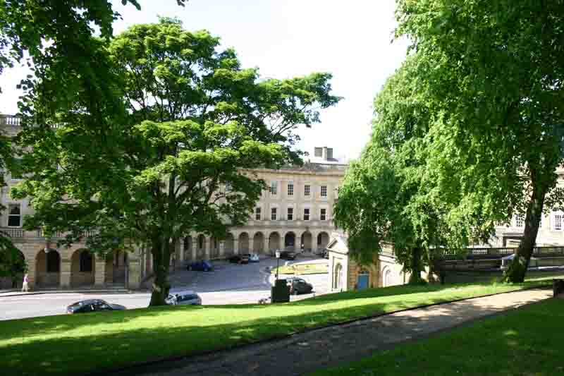 View looking over St Ann's Well and Buxton Crescent, Buxton, Derbyshire